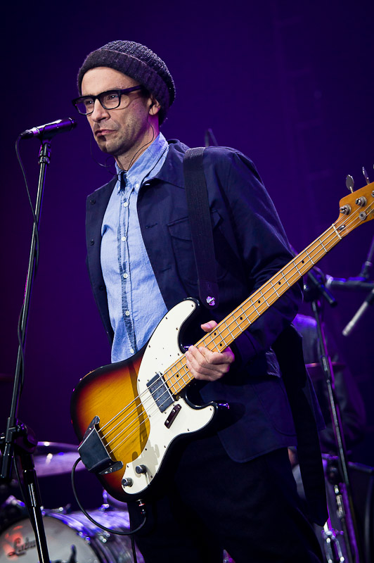 Bartosz Waglewski of Kim Nowak at Orange Warsaw Festival